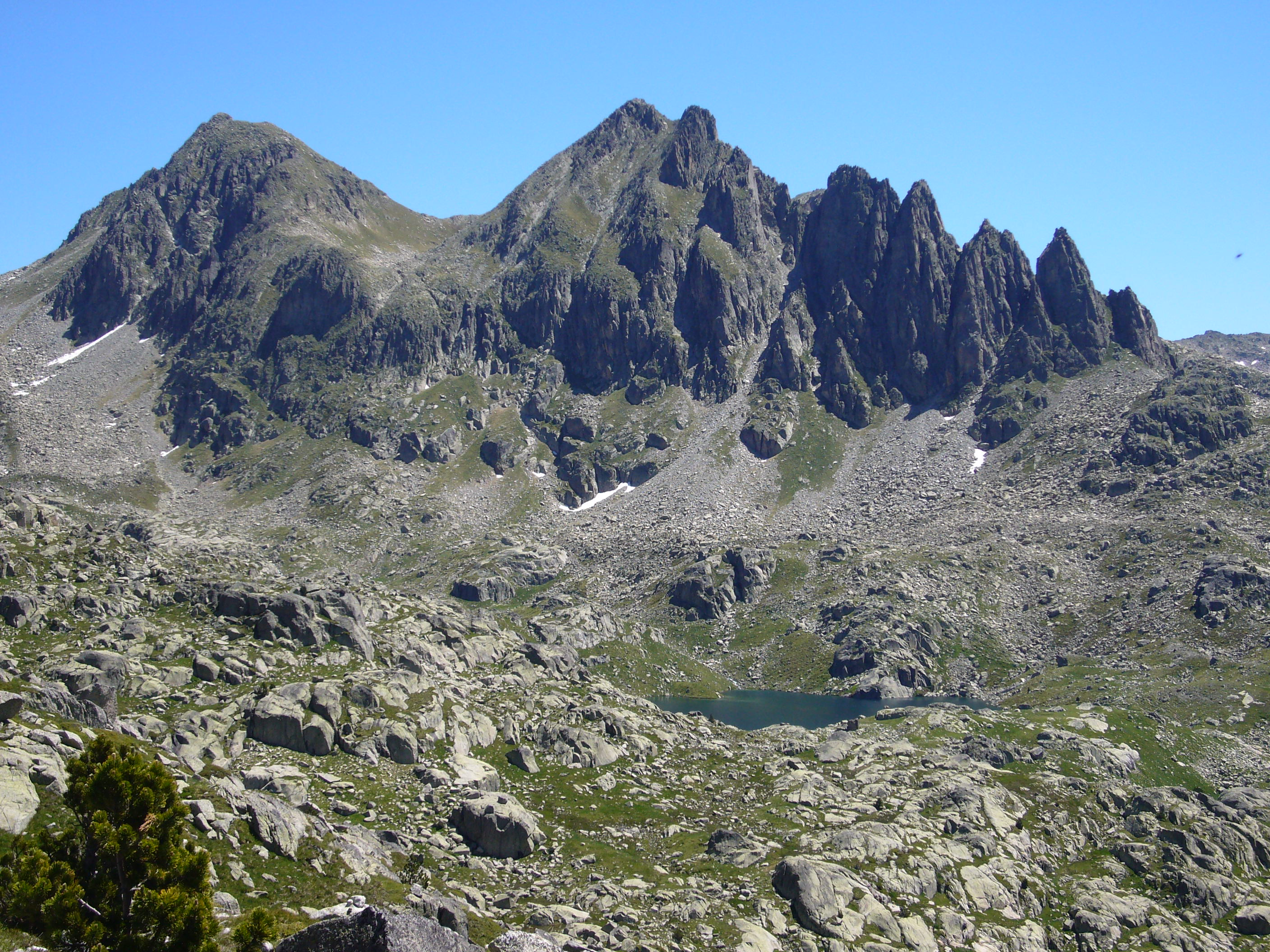 Tuc deth Pòrt i, Pic i Agulles de Travessani; la Vall de Boí, Alta Ribagorça, Catalonia